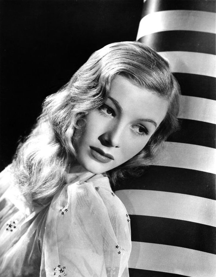 Veronica Lake Paramount publicity headshot, ca. 1940s